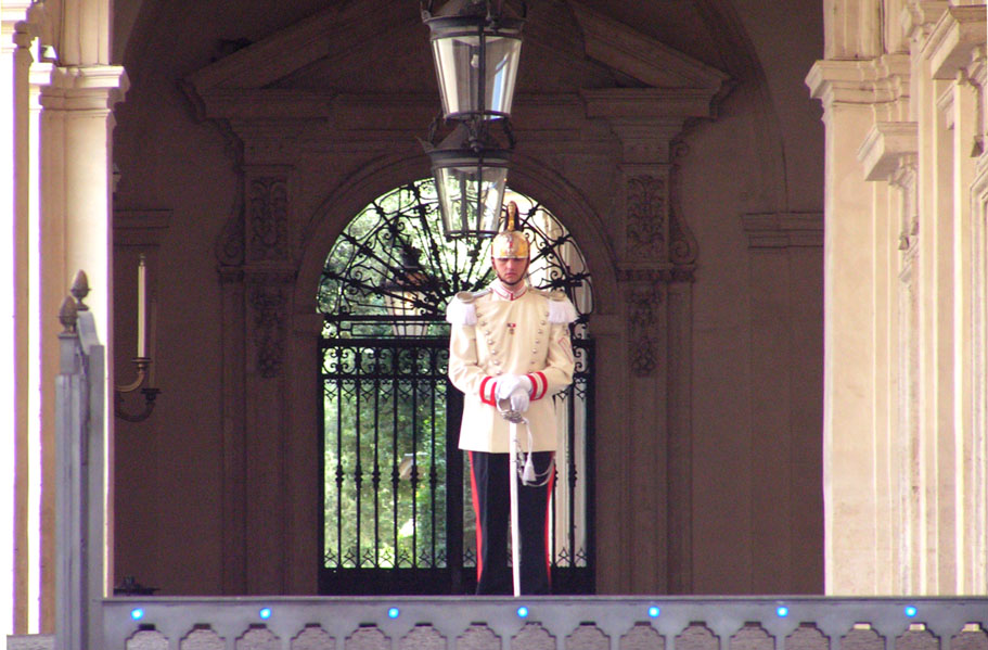 A guard at the Quirinal Palace in Rome